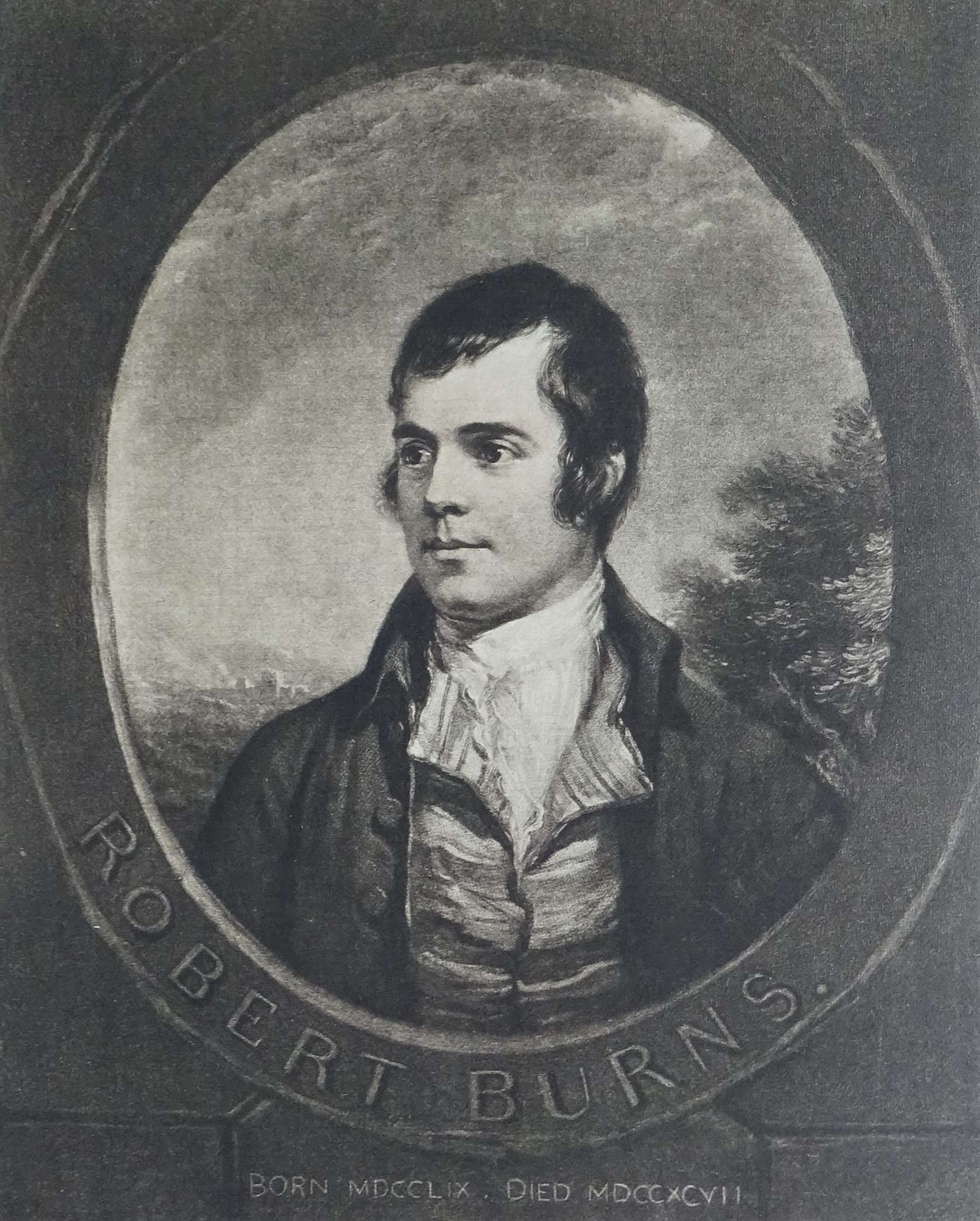 Robert Burns after A. Nasmyth by William Walker & Samuel Cousins. 1830. The date of his death is given as 1797 when it was 1796